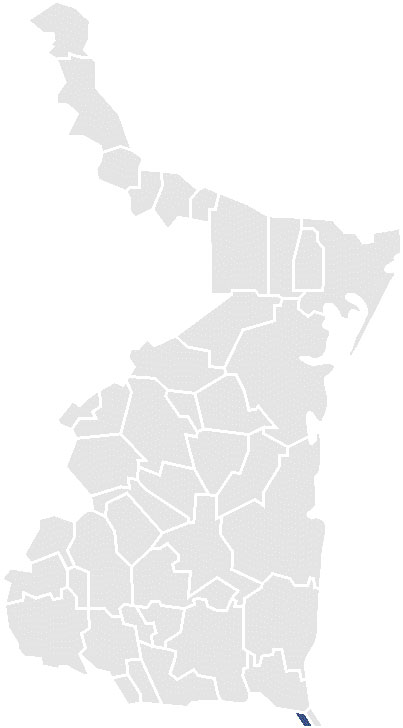 Map of the Eight Federal Electoral District of the State of Coahuila, México.